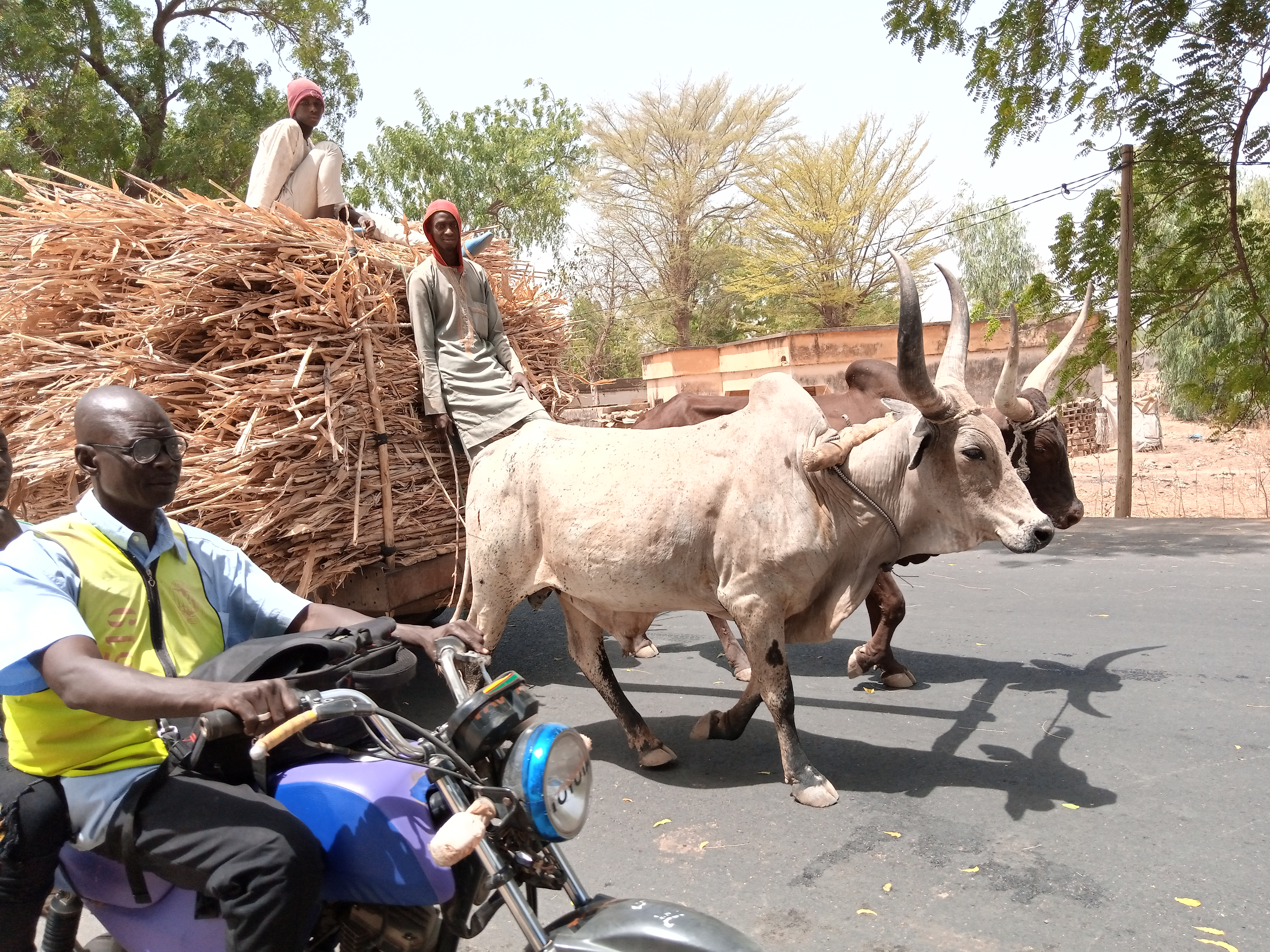 il s'agit d'une image où deux hommes transportés par deux boeufs sur une charue avec des tiges du sorgho de saison sèche. ils sont dans une zone rurale . This is an image with the theme "Africa on the Move or Transport" from: Cameroon